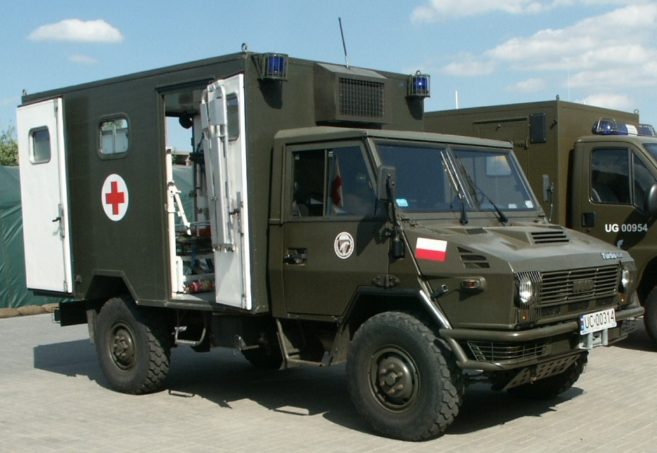 Polish Iveco 40E.12WM ambulance at MSPO 2005.